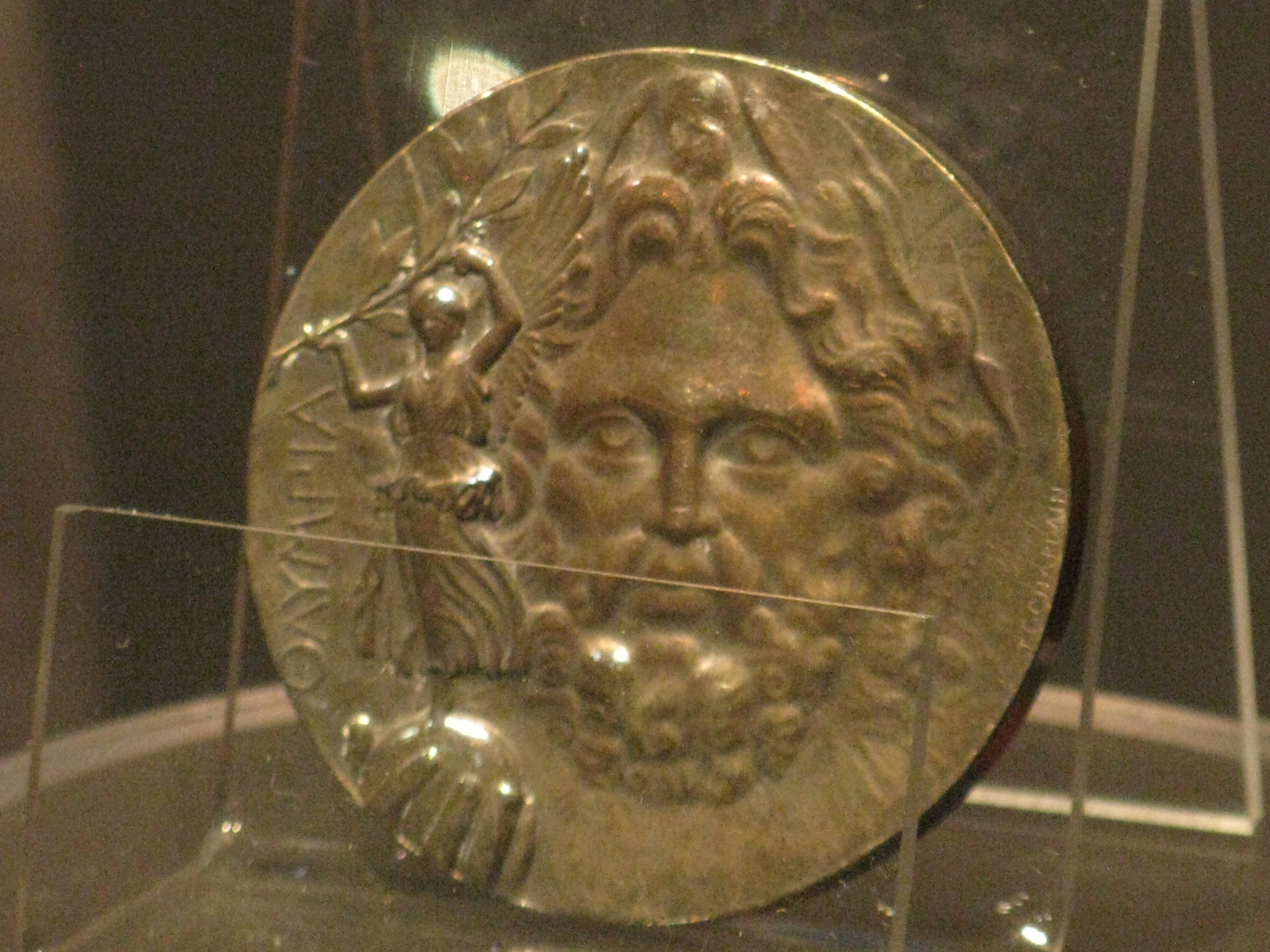 Olympic first place medal from the Athens Games of 1896 (obverse), from the collection of the Olympic Museum (IOC).